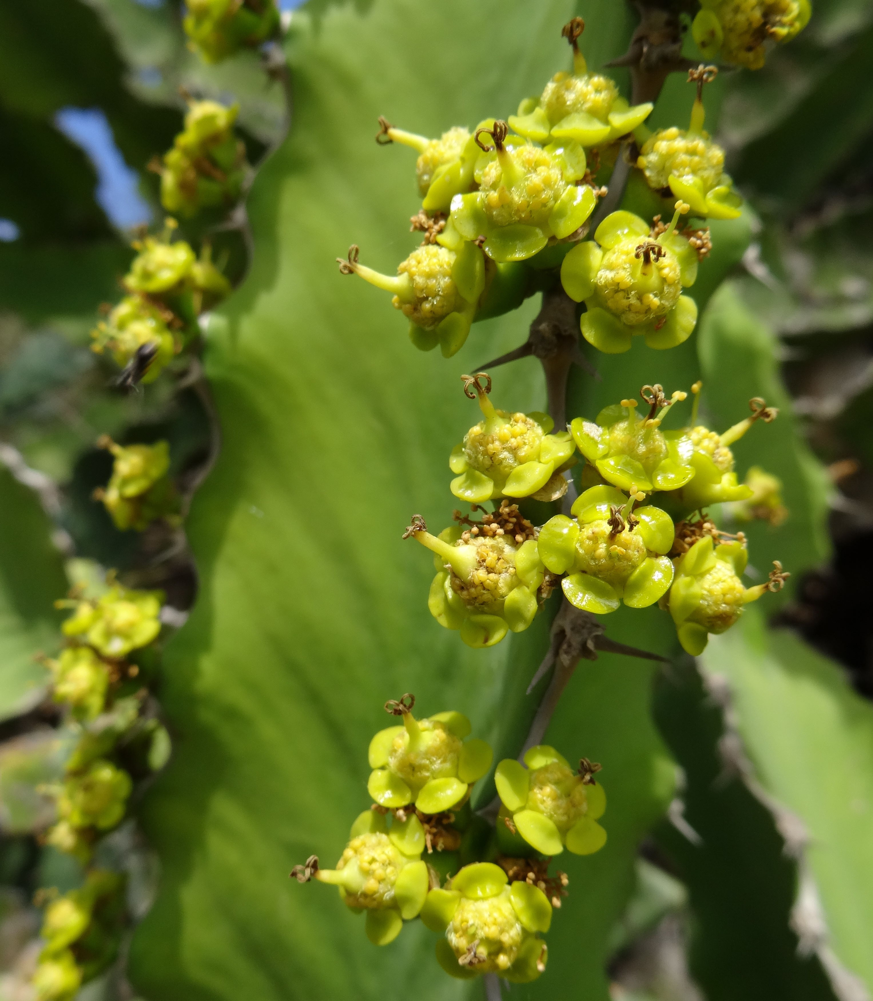 Euphorbia halipedicola - flowers